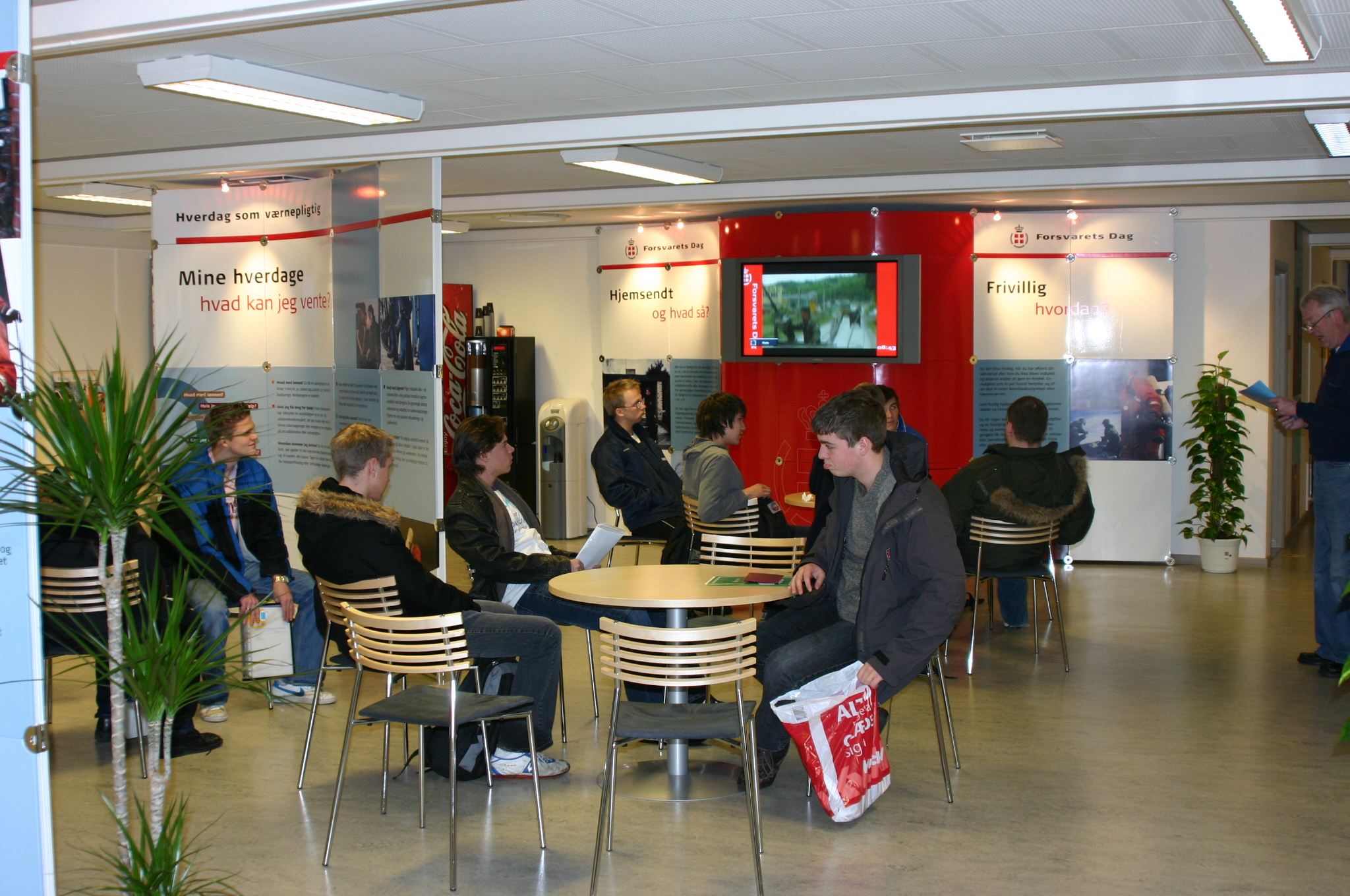 Interior of Recruiting Center Herning, Denmark